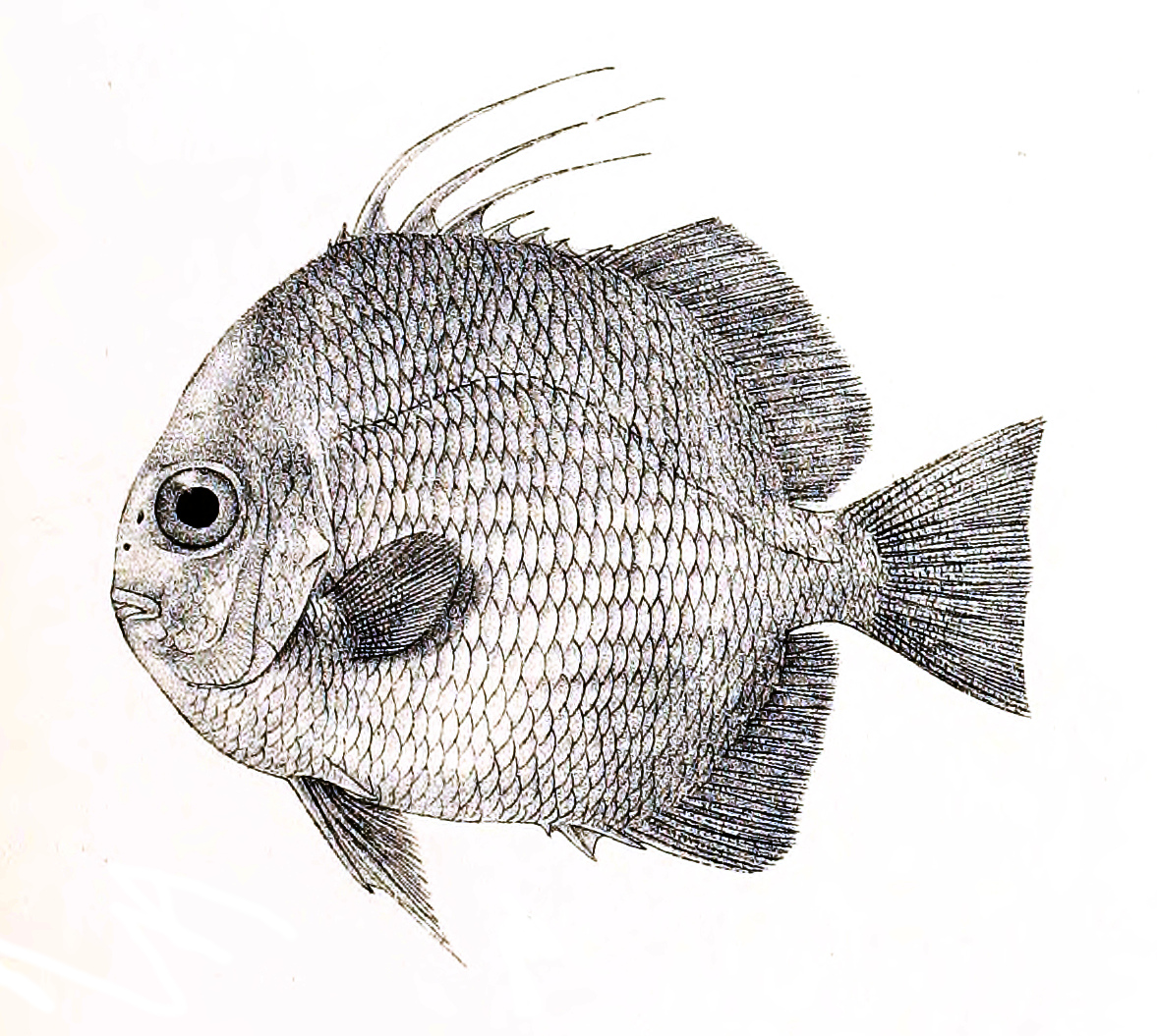 The species names / identity need verification. The original plates showed the fishes facing right and have been flipped here. Ephippus orbis